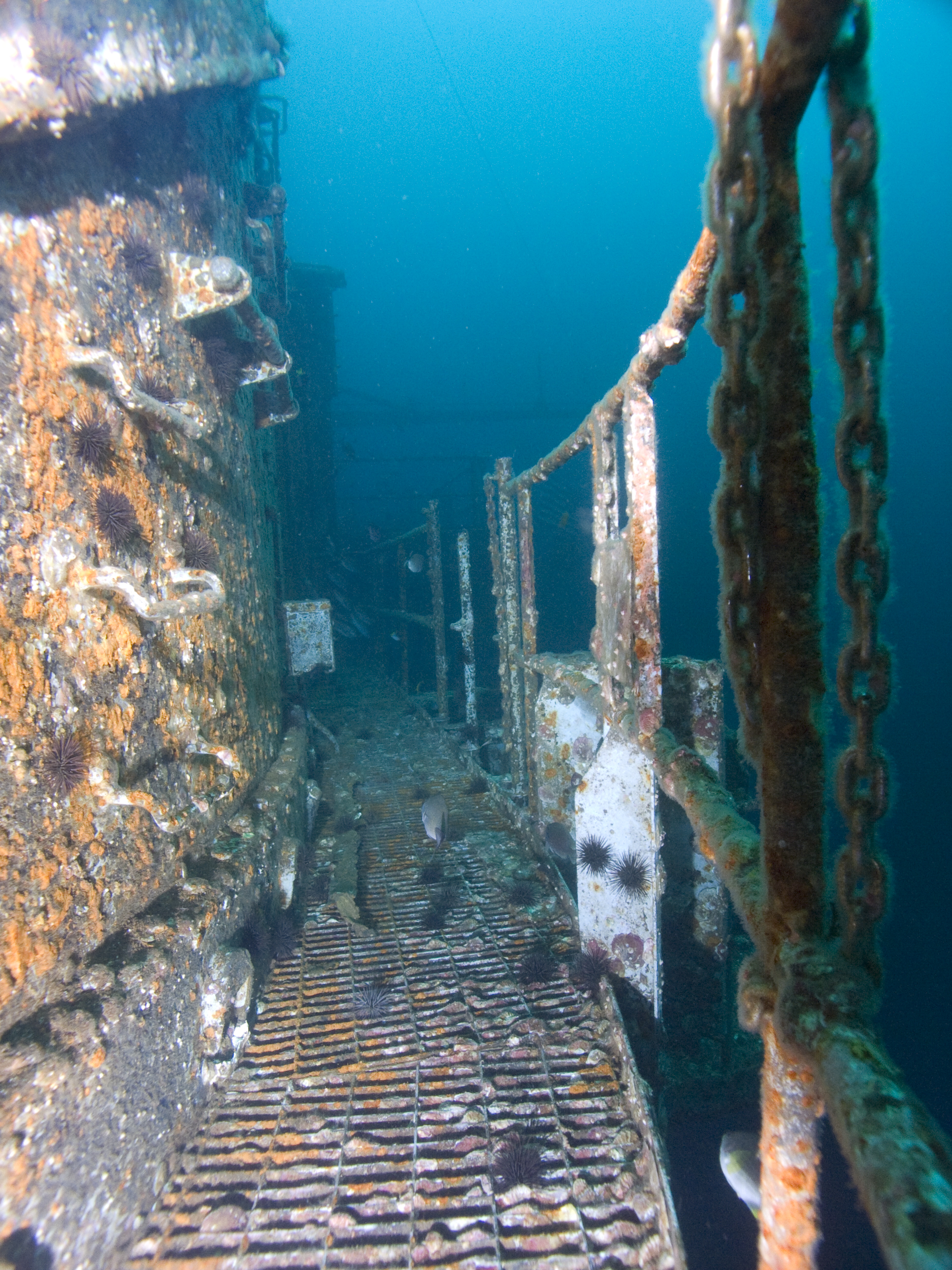 Underwater view of the ex-Oriskany taken 2 years after sinking. Most surfaces have growth of shells and sea urchins.